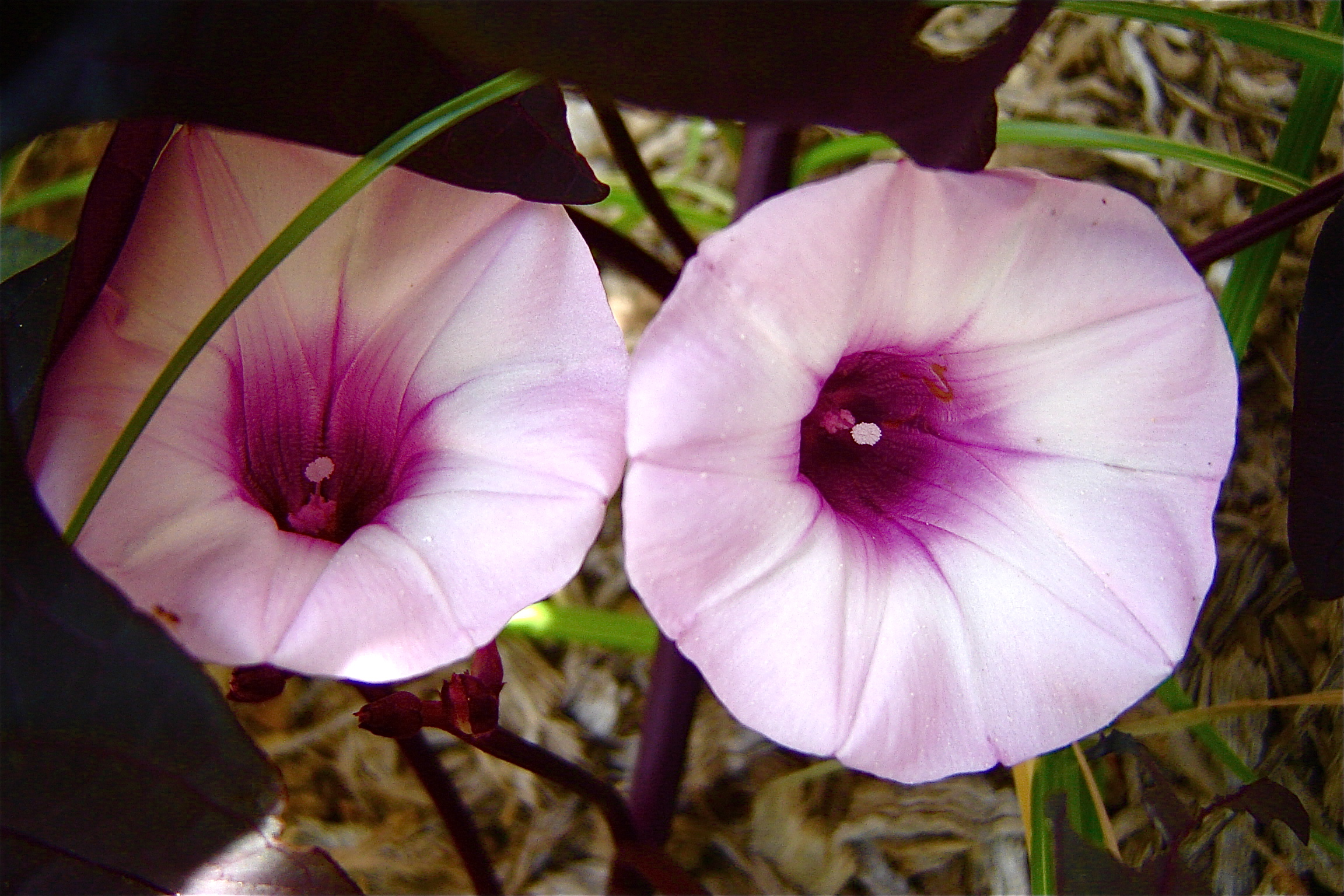 I just couldn't go there with the title "What's the Story, Morning Glory?"